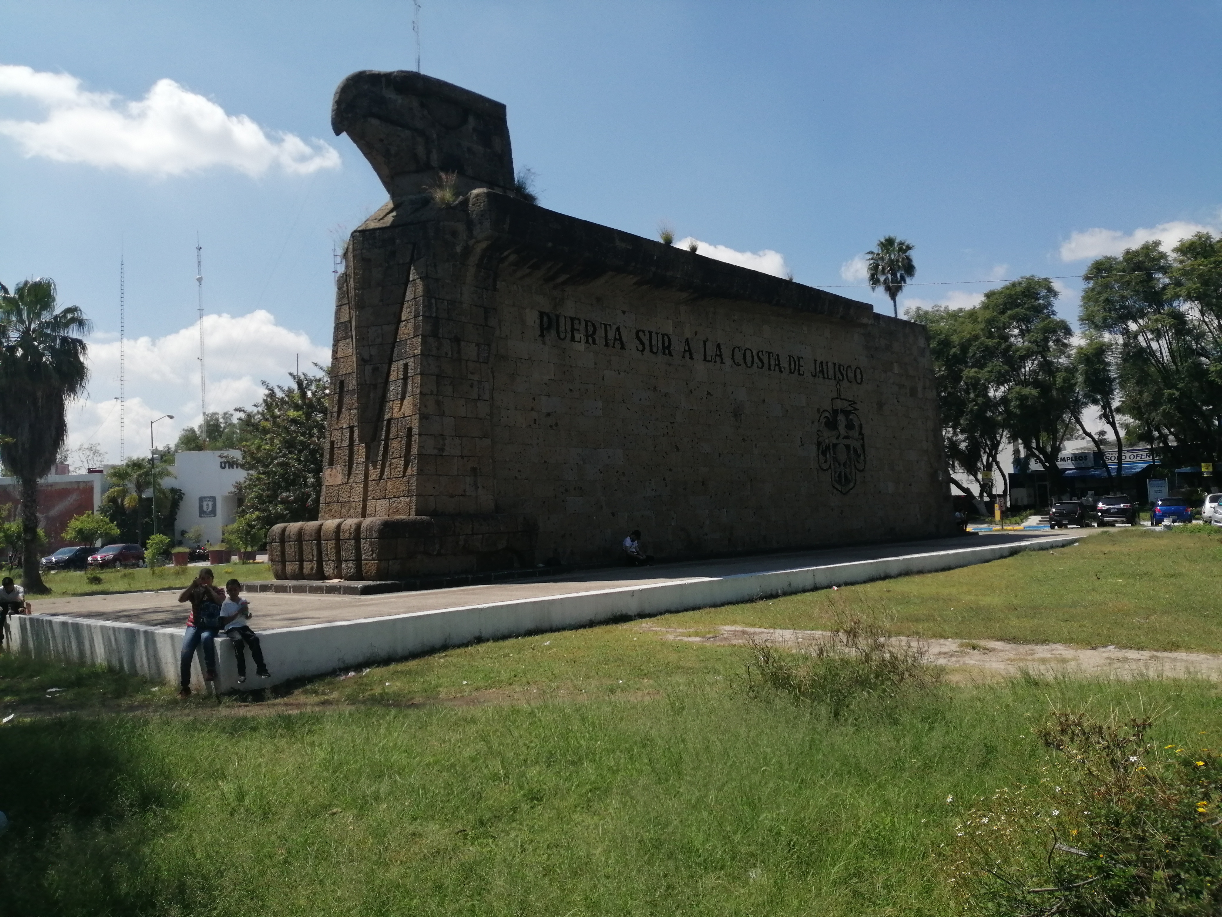 Eagles monument